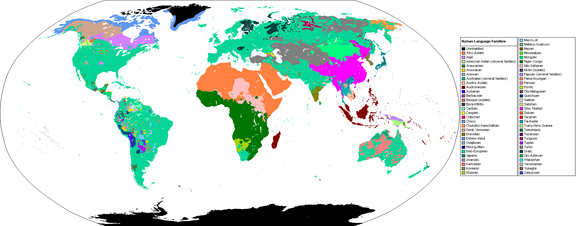 Modified version of File:Human Language Families Map.PNG that shows only primary language families.